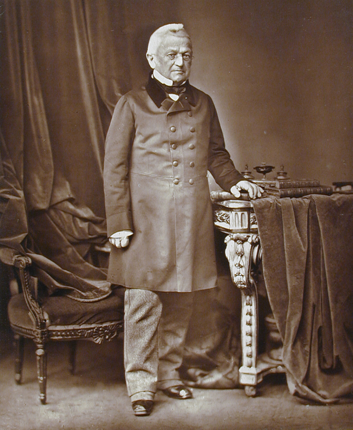 France, 1876-1884 Book: Galerie Contemporaine Volume, number, page: Volume 5 Photographs Woodburytype The Audrey and Sydney Irmas Collection (AC1992.229.66) Photography